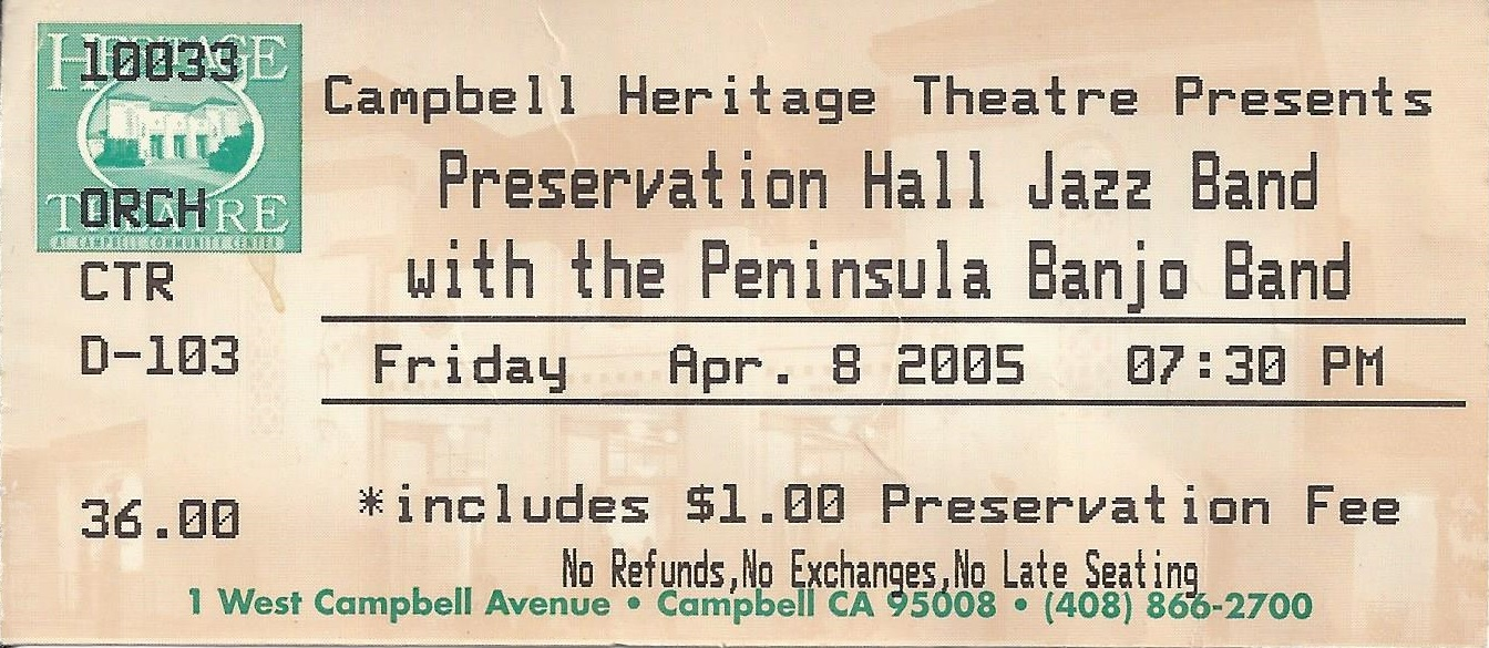 Friday, April 8, 2005 ticket from the performance of the Preservation Hall jazz band at the Heritage Theater in Campbell, CA with special guest performers, the Peninsula Banjo Band, as the opening act.